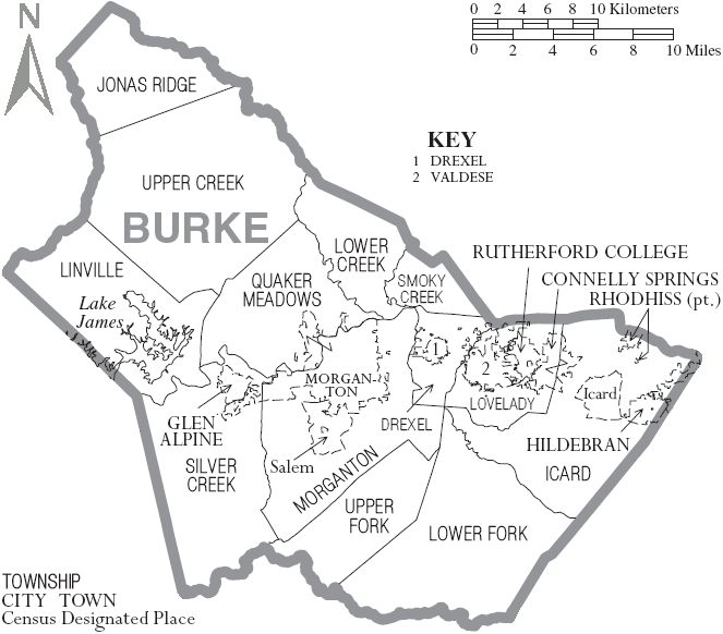 Map of Burke County, North Carolina, United States with township and municipal boundaries